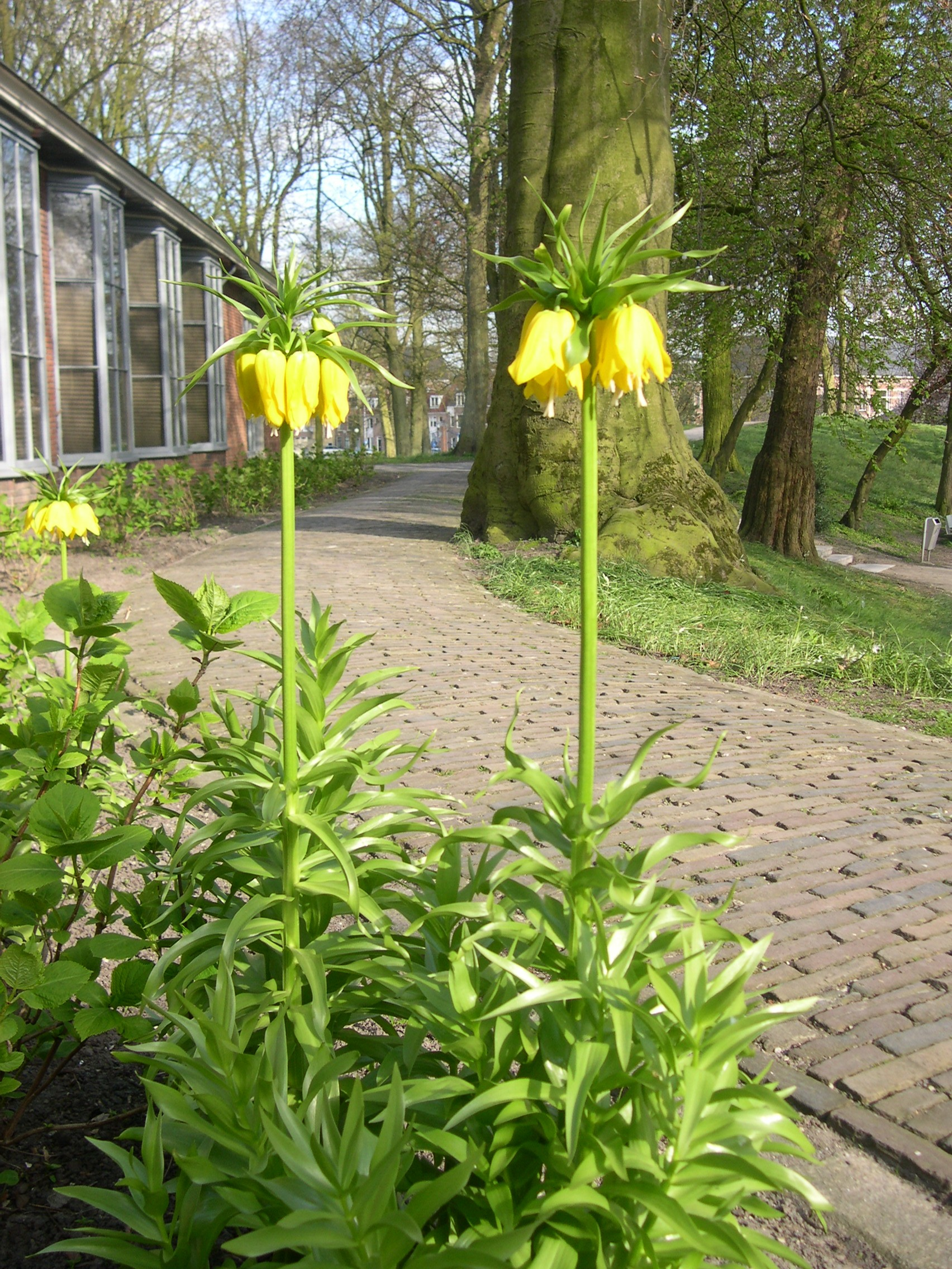 Fritillaria imperialis in De koperen tuin in Leeuwarden, the Netherlands Picture taken by Magalhães on 29th of April 2006